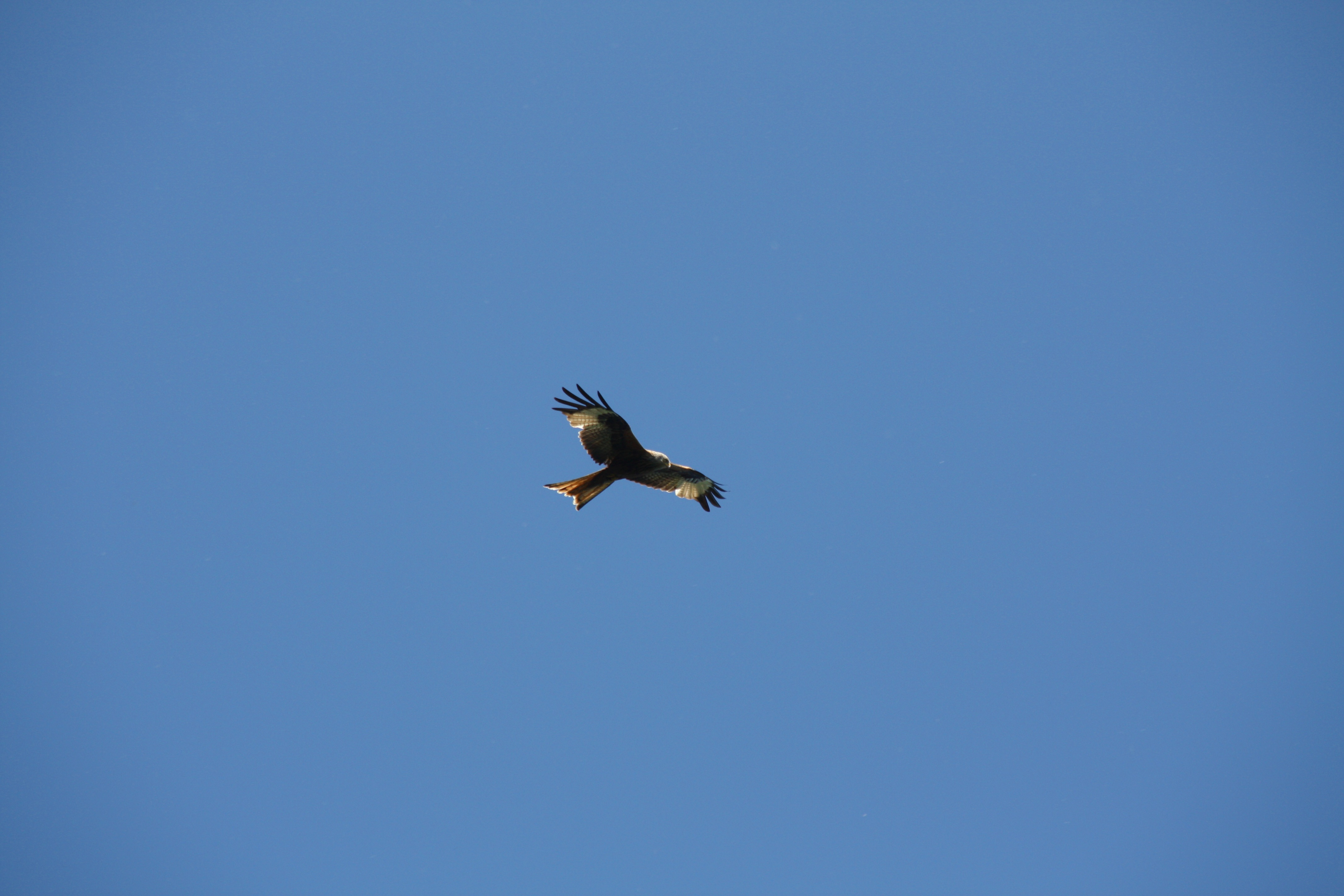 A red kite soaring on a thermal above the Harcourt Arboretum (Oxford, UK).